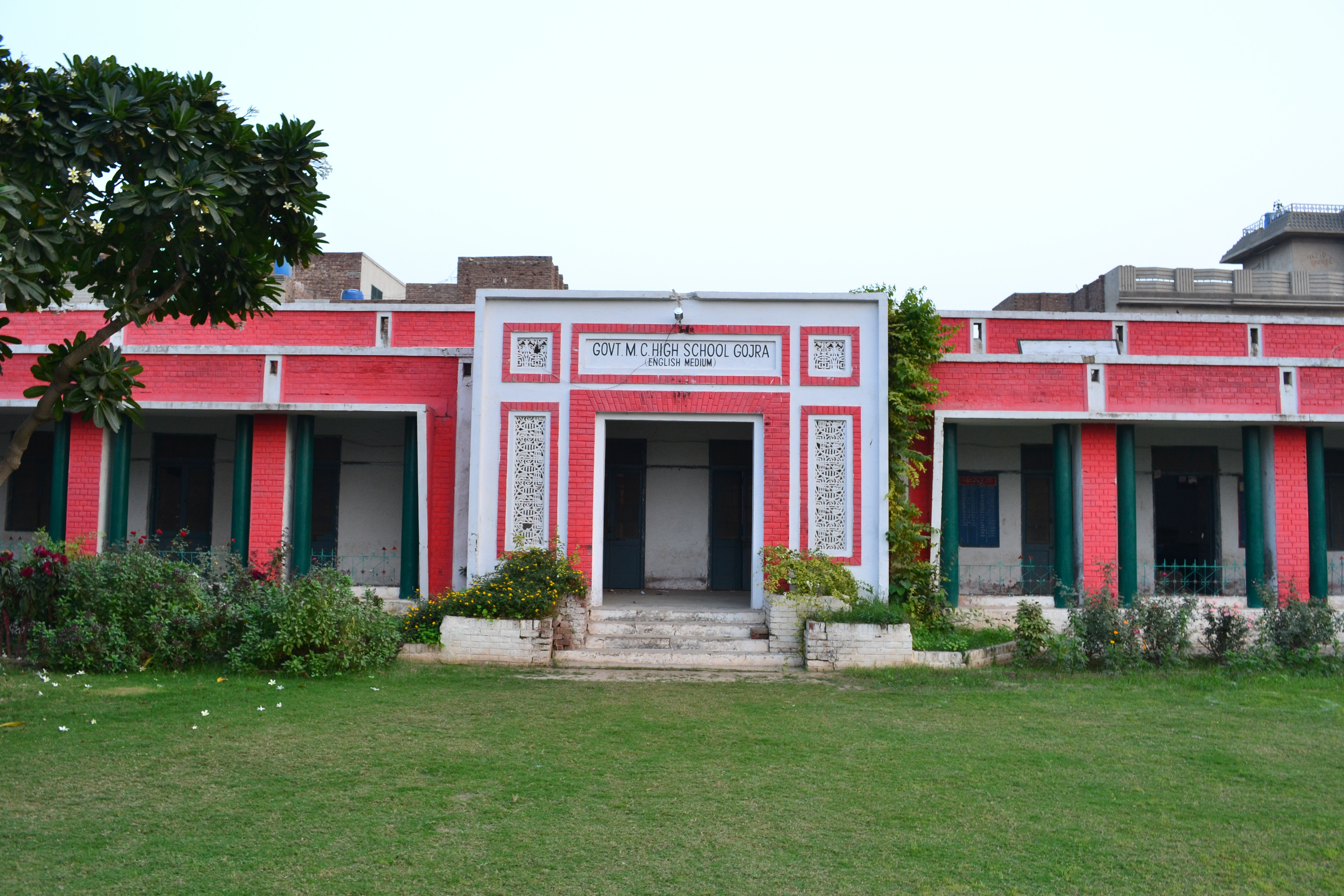 MC High School Gogra